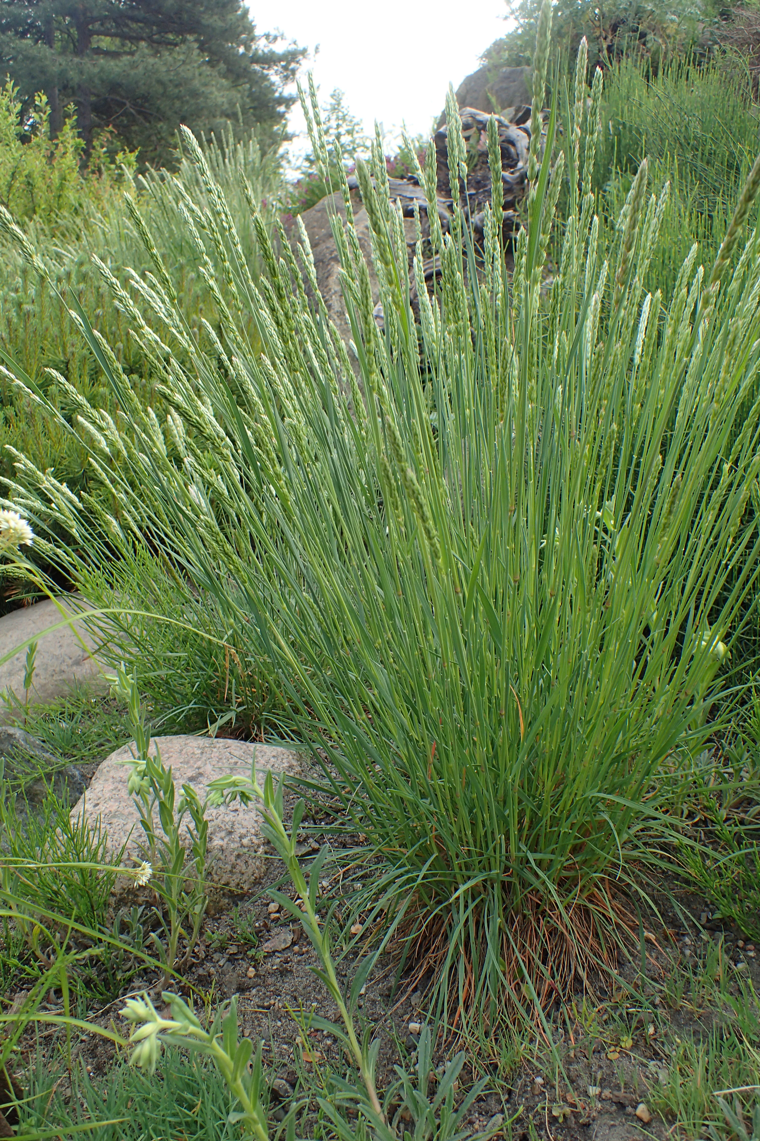 Koeleria vallesiana in the Botanischer Garten, Berlin-Dahlem